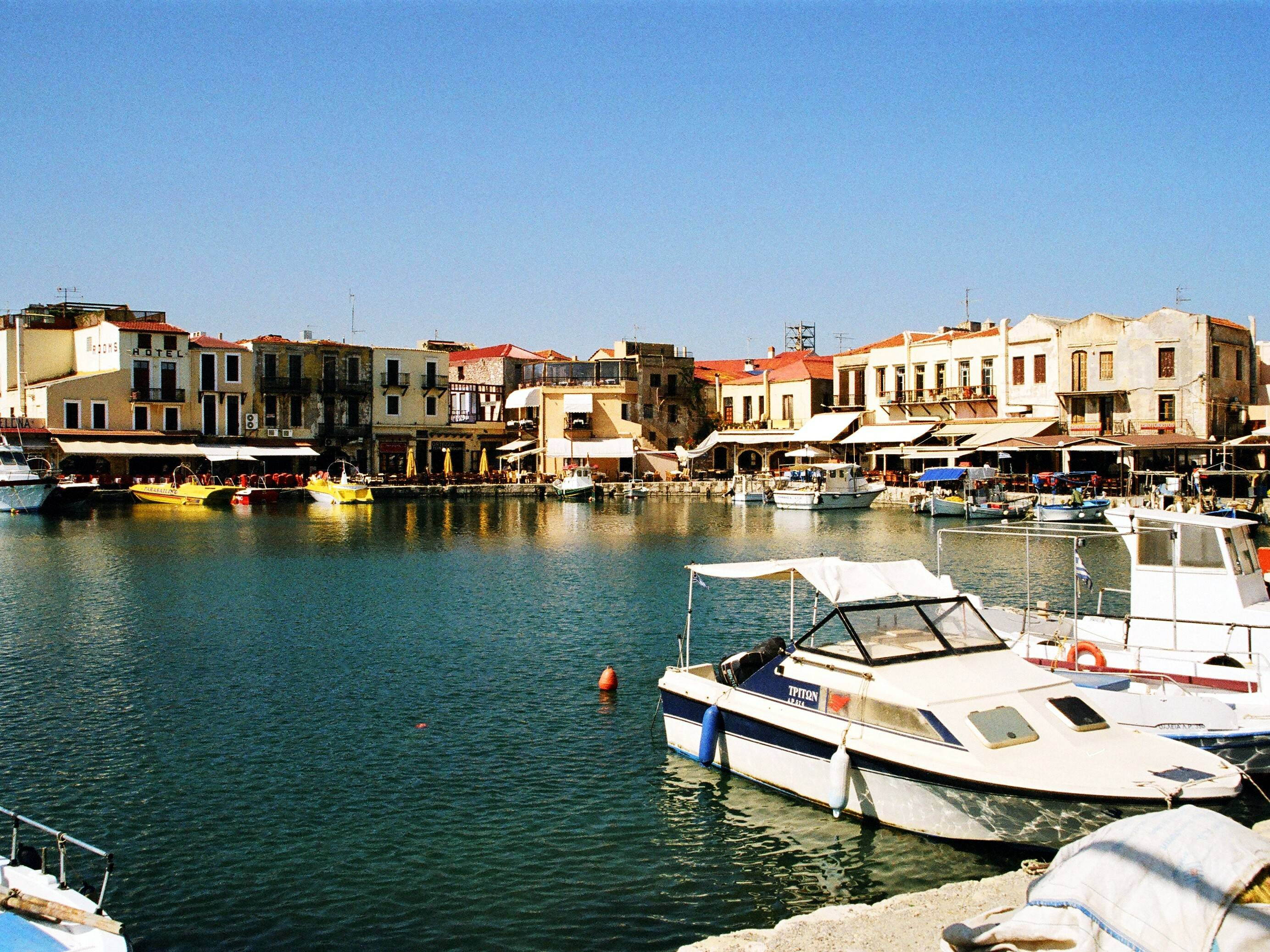 Rethymno, Crete, Greece